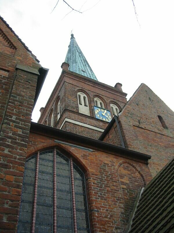 The Marienkirche in Bergen auf Rügen. The image is borrowed from WP and its original upload information can be found here.